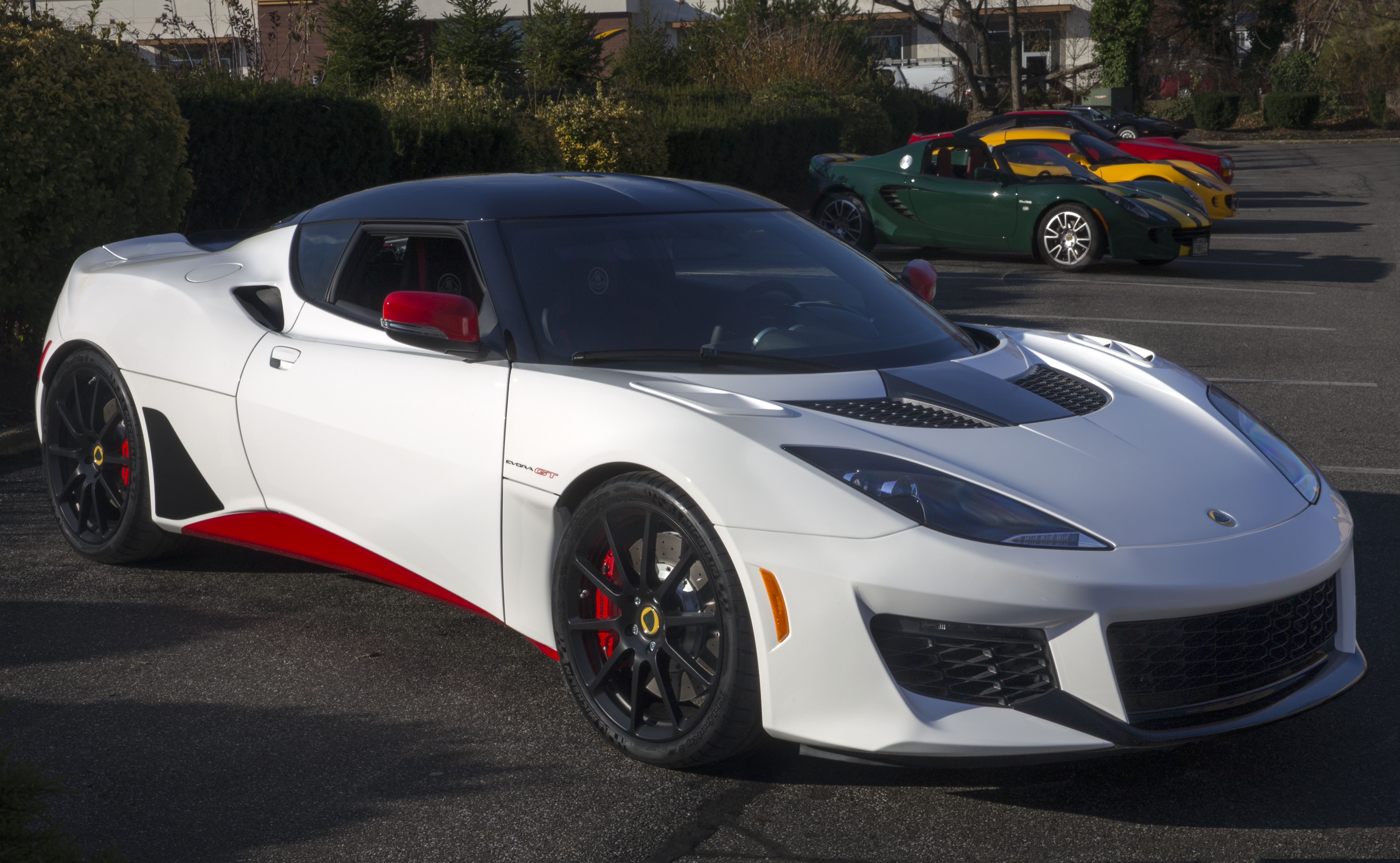 A 2020 Lotus Evora GT in Monaco White at a Cars & Coffee at Autosport Designs in Huntington Station, Long Island. Already sold since I took the photo.